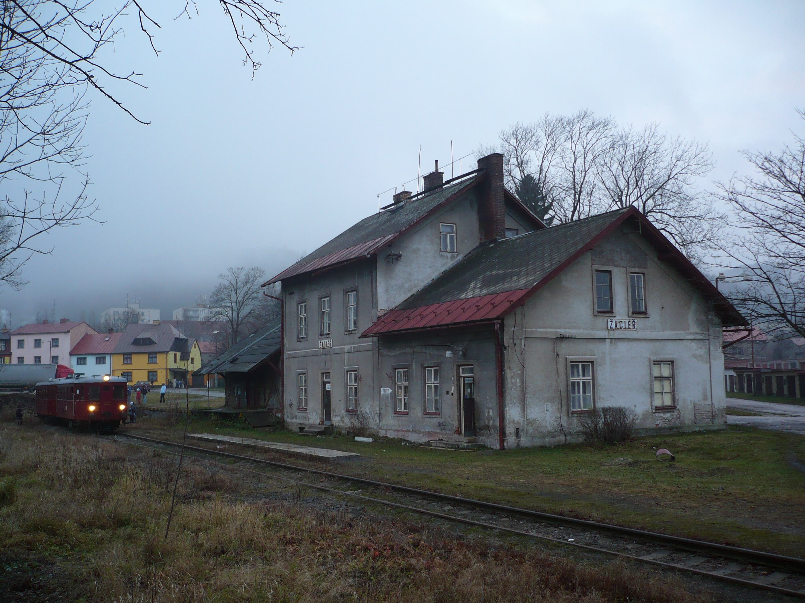 Railway station Žacléř. The owner of the building is state owned company České dráhy (Žacléř č.p. 201 on land plot st. 254))